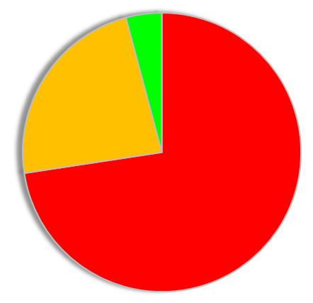 Expressed as a pie chart in the Shizuoka gubernatorial election in 2013, the number of votes for each candidate. explanatory notes ■ - Heita Kawakatsu ■ - Ichiro Hirose ■ - Yukihiro Shimazu